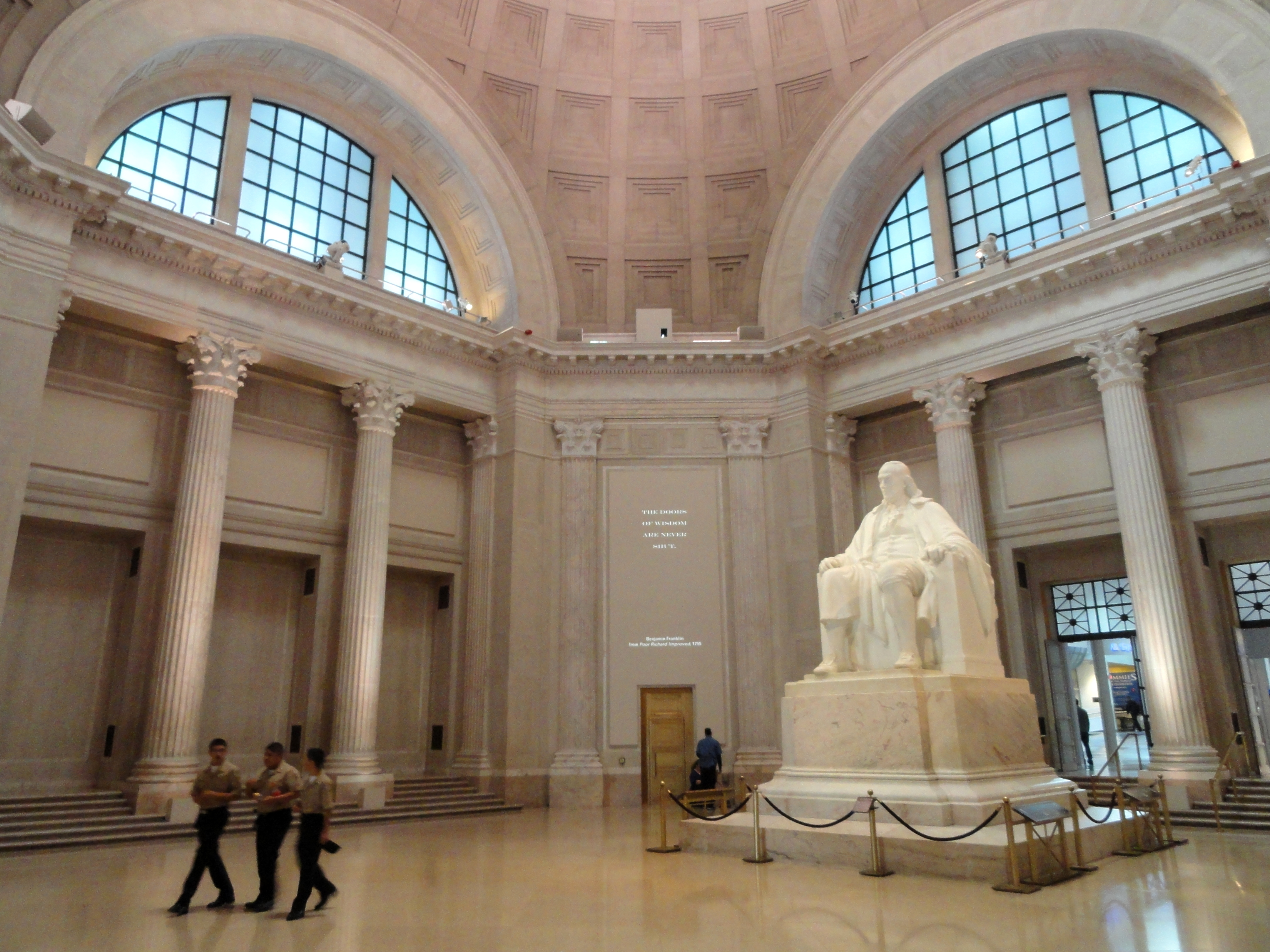 Benjamin Franklin National Memorial, Franklin Institute, Philadelphia, Pennsylvania, USA. Sculpture by James Earle Fraser, 1906-11. This sculpture is now in the public domain because no notice of copyright [1]